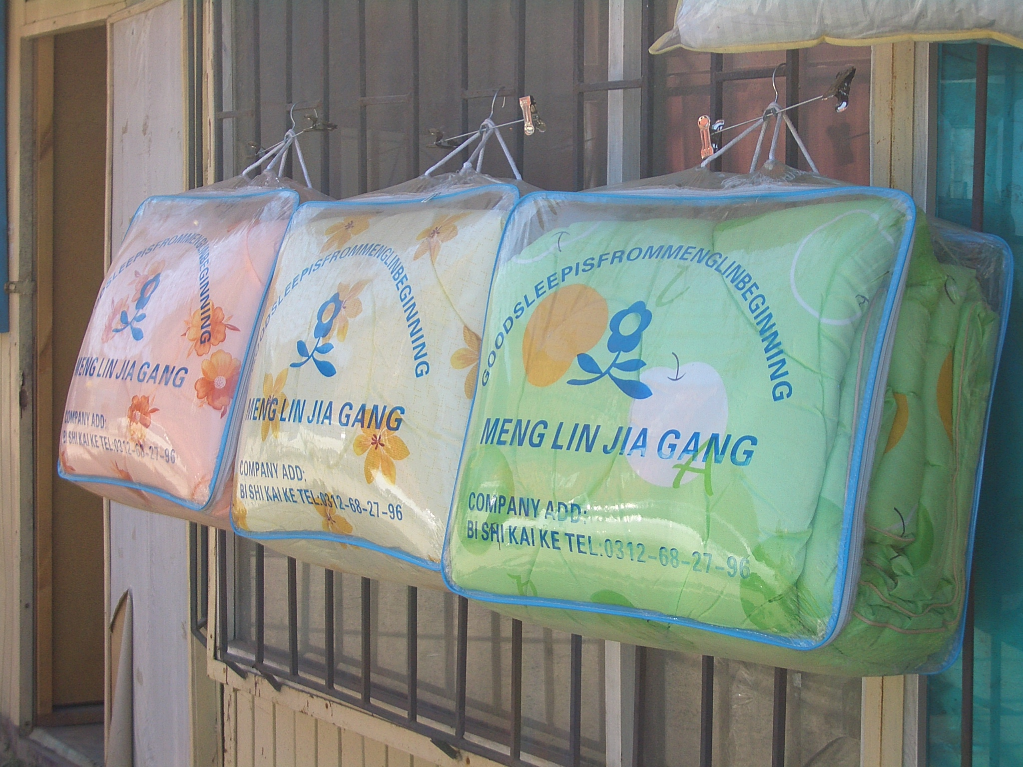 Blankets sold at Dordoy Bazaar, Bishkek. Note the Chinese manufacturer's choice of labeling the product just in Pinyin, with a space after each syllable (and no Hanzi) and "English" (without spaces between words). Dividing alphabetic text into words with spaces is somewhat difficult for some Chinese writers, as Pinyin is often (incorrectly) written either with no spaces at all, or with a space after each syllable. "Bi shi kai ke", followed by a Bishkek telephone number, is the correct Pinyin for 比什凯克 (Chinese for 'Bishkek'), although syllables within a word should not be separated by spaces.